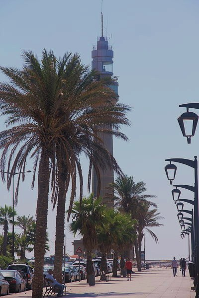 Lighthouse in Beirut